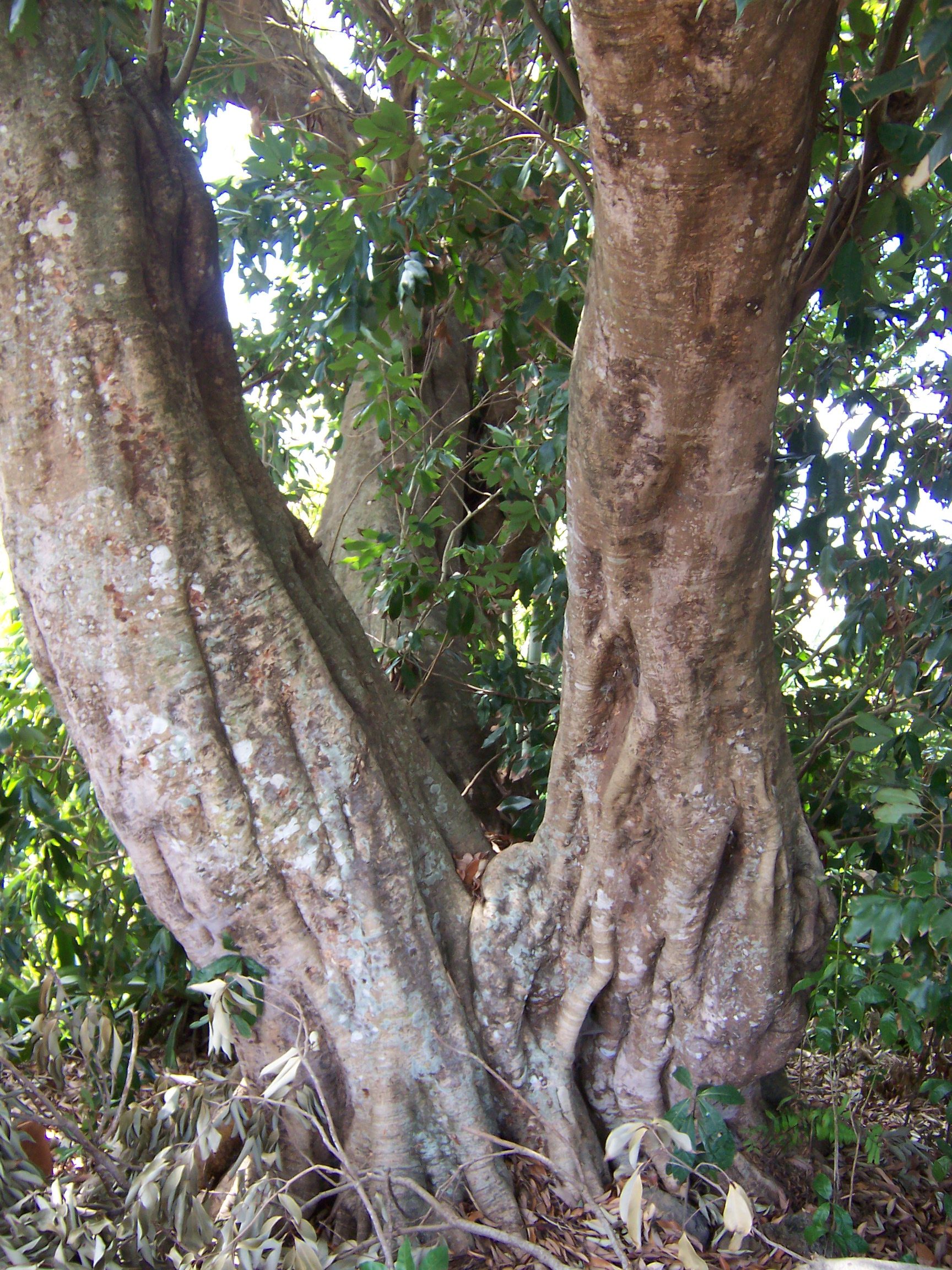 trunks of Litchi chinensis (picture taken on Réunion island)